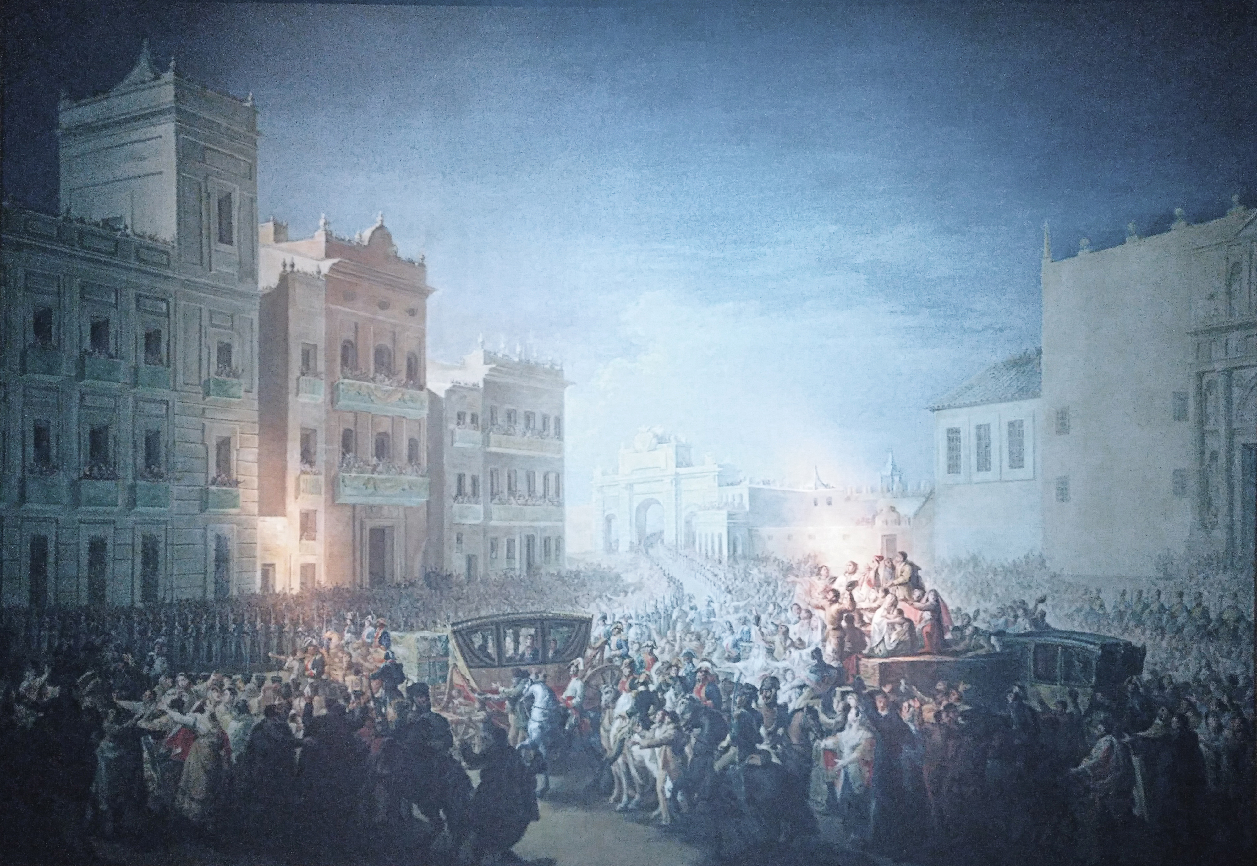 Entry of Fernando VII in Valencia on May 14, 1814. Picture of Fernando Brambila in the Palacio de Cervelló.